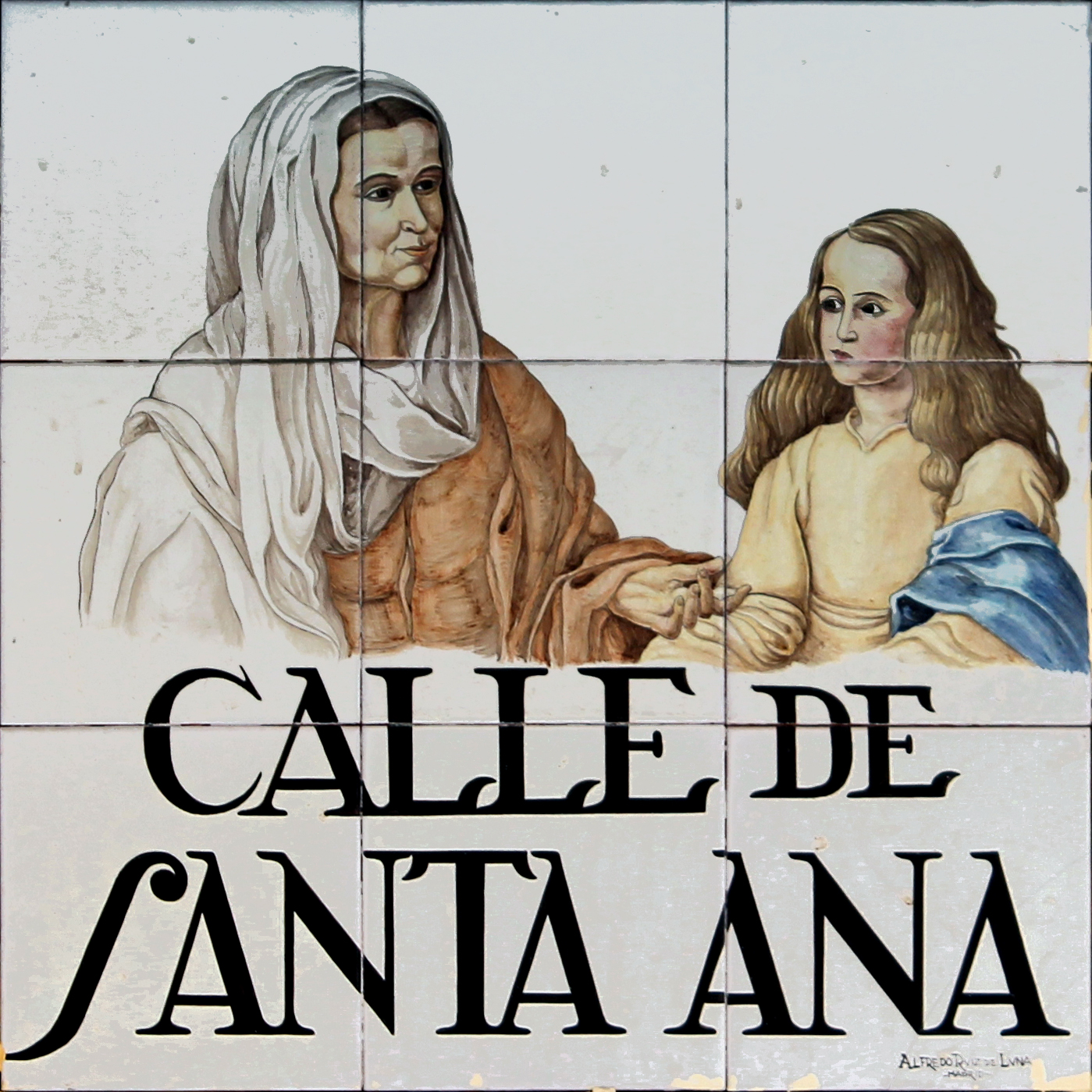 Sign of Calle de Santa Ana (street) in Madrid (Spain).